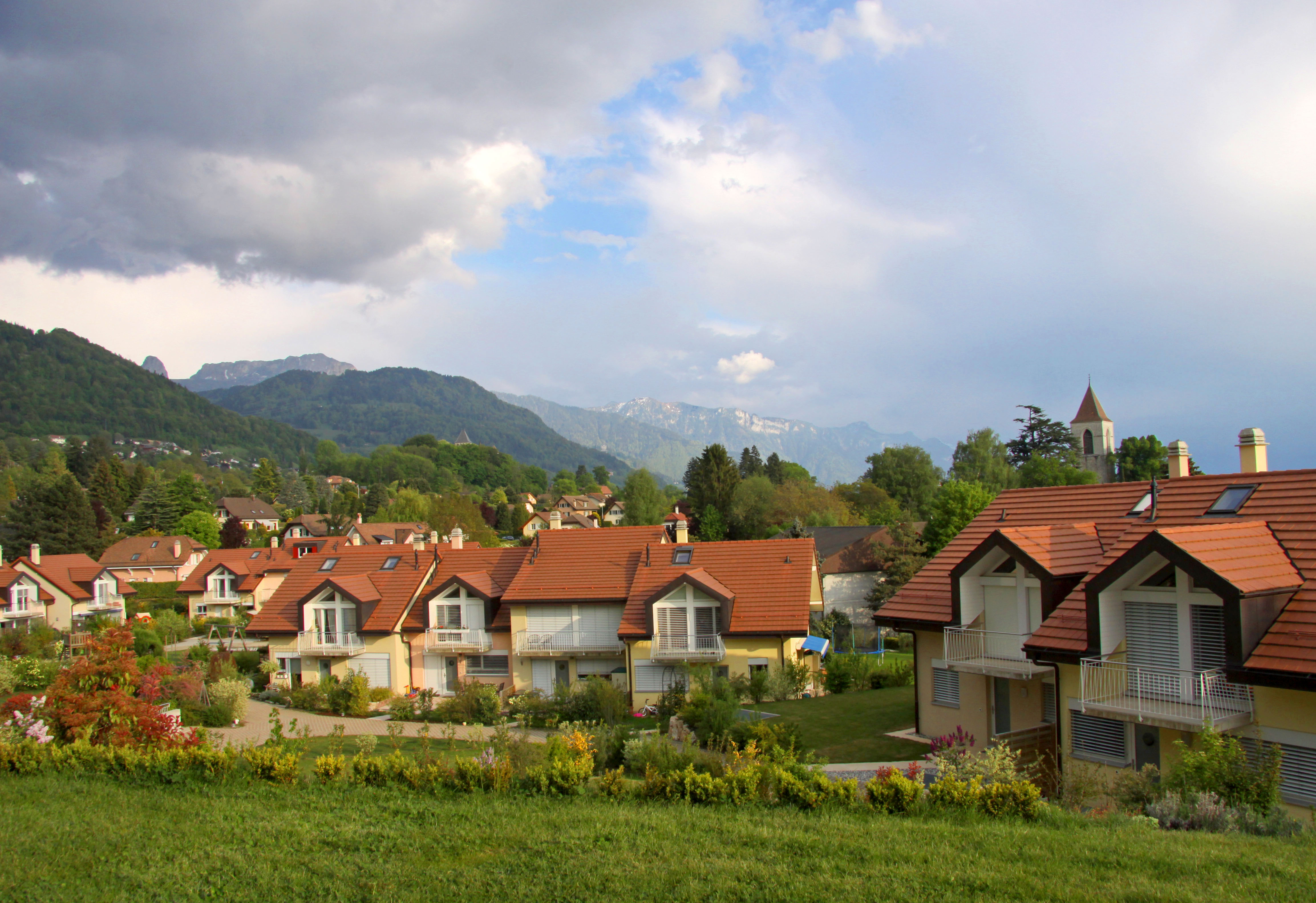 Saint-Légier village in Saint-Légier-La Chiésaz, Vaud, Switzerland